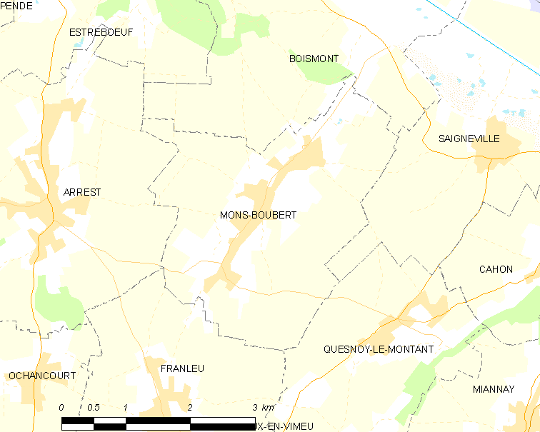 Map of French municipality Mons-Boubert